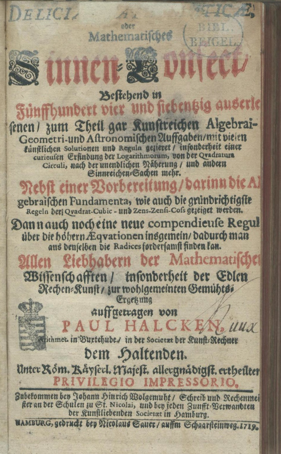 Front page of the "Deliciæ Mathematicæ"